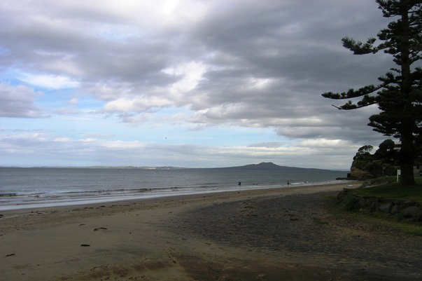 Rothesay Bay Beach, Rothesay Bay, East Coast Bays, North Shore City, Auckland, New Zealand.